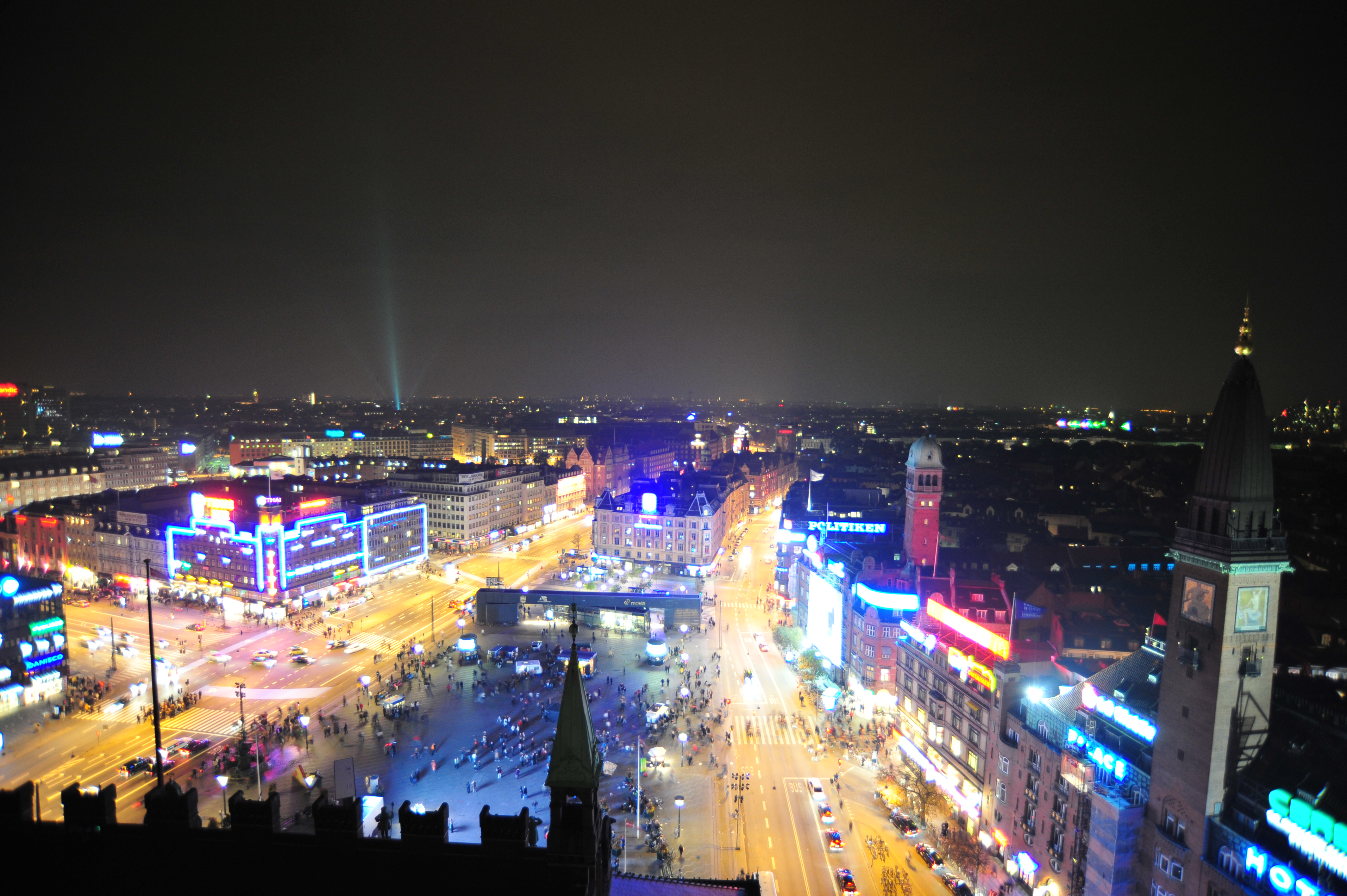 Copenhagen (Denmark) seen from the City Hall clocktower at night.